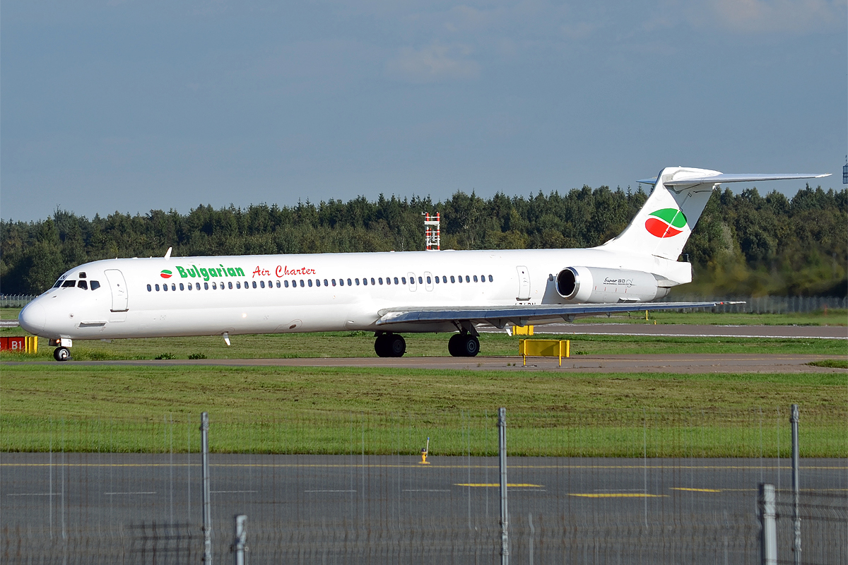 Bulgarian Air Charter, LZ-LDN, McDonnell Douglas MD-82